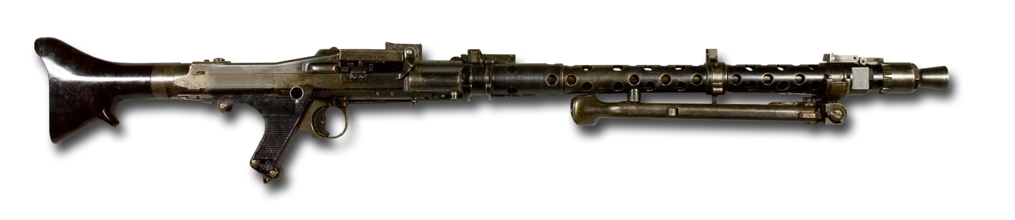 German MG34